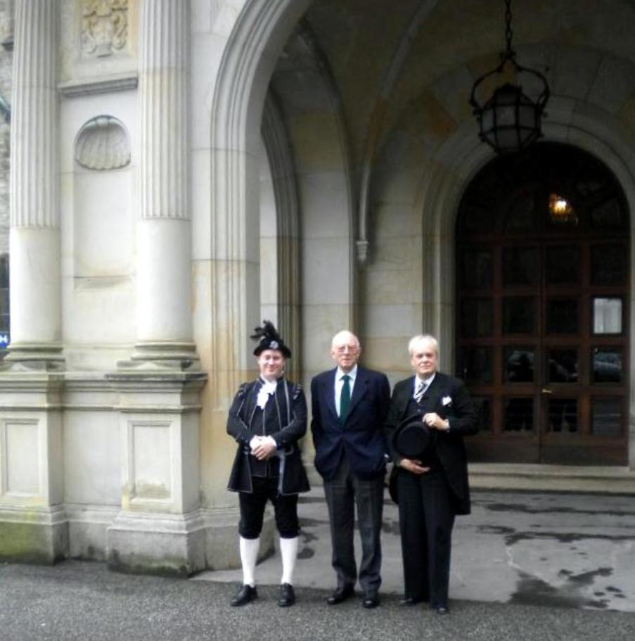 Emil Eikner, HRH Landgrave Moritz of Hesse and Jacob Truedson Demitz in front of Friedrichshof Castle in Hesse, central Germany.